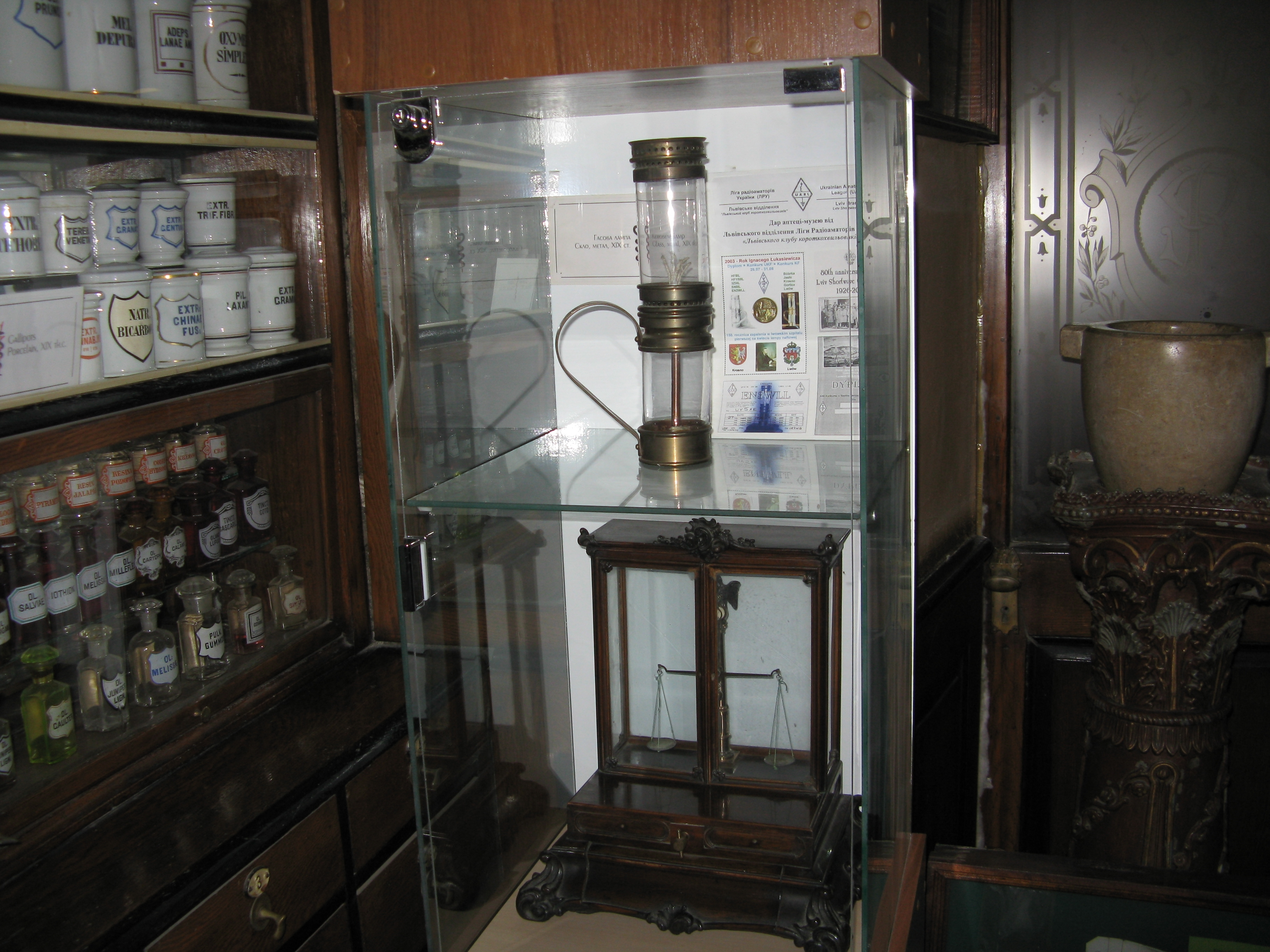 Ignacy Łukasiewiczlamp, Lviv pharmacy